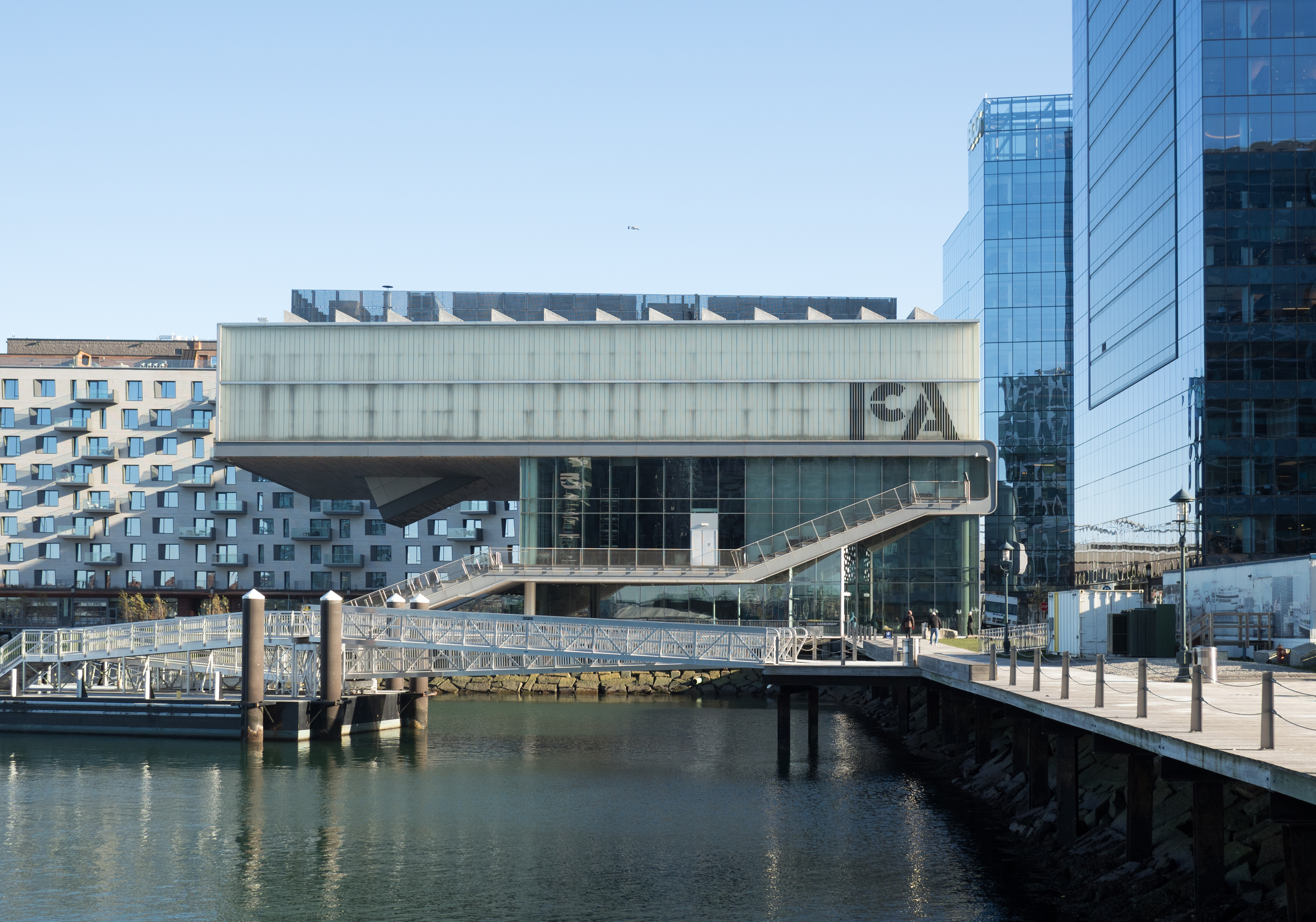 Institute of Contemporary Art in Boston